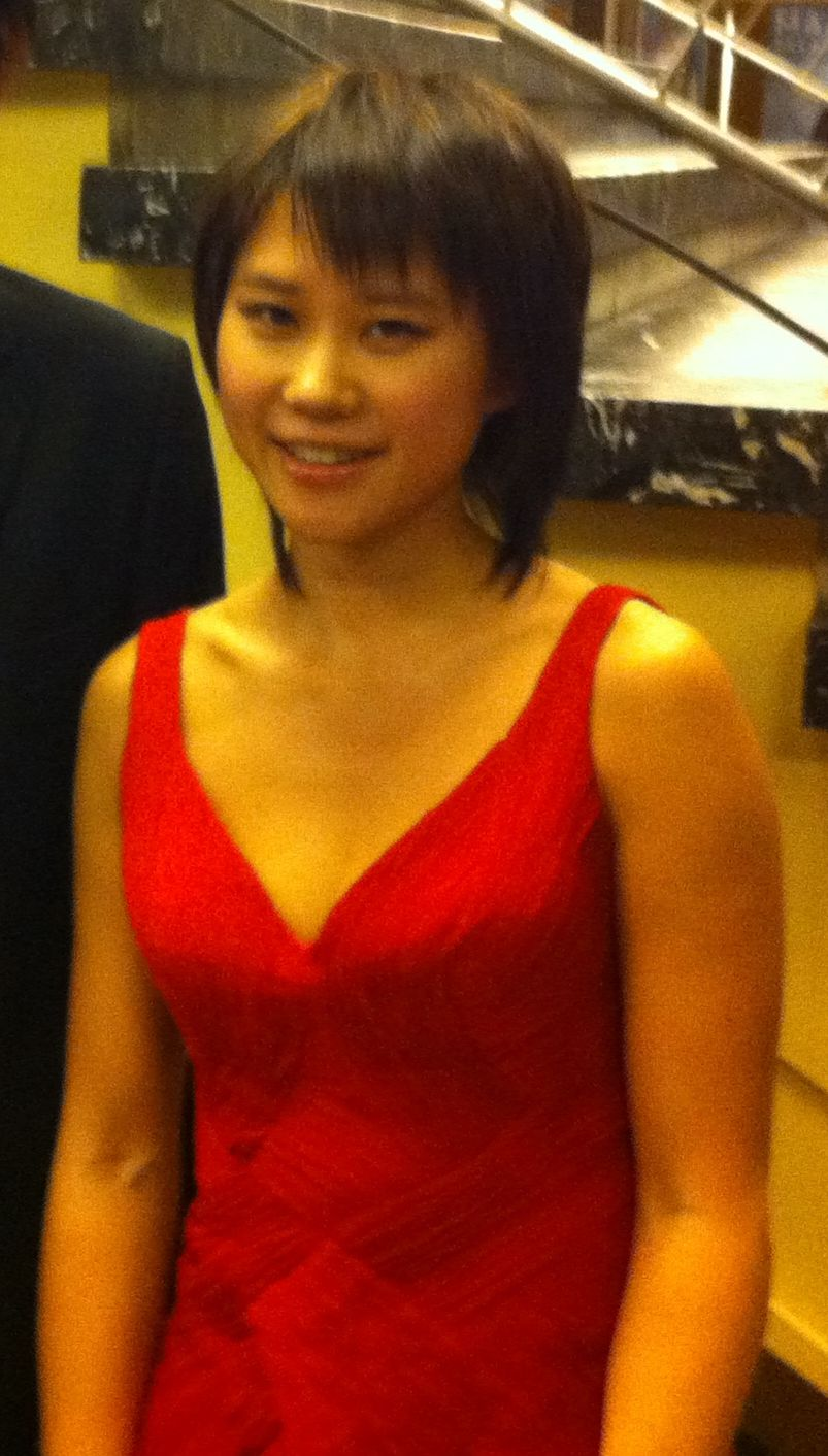 Chinese pianist Yuja Wang, at Liederhalle, Stuttgart, Germany.